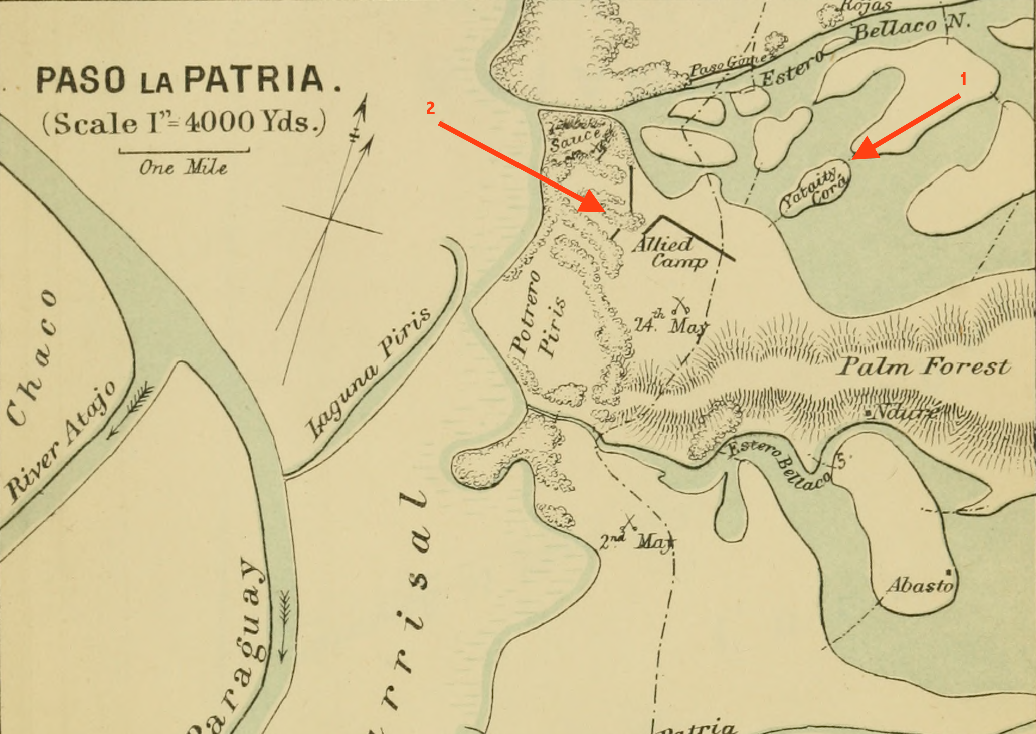 Battlefield: Yataity-Corá and Boquerón del Sauce